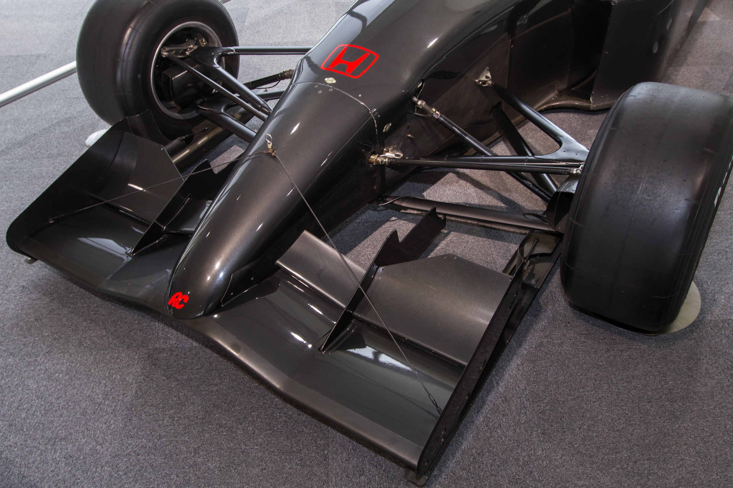 1992 Honda RC-F1 1.5X